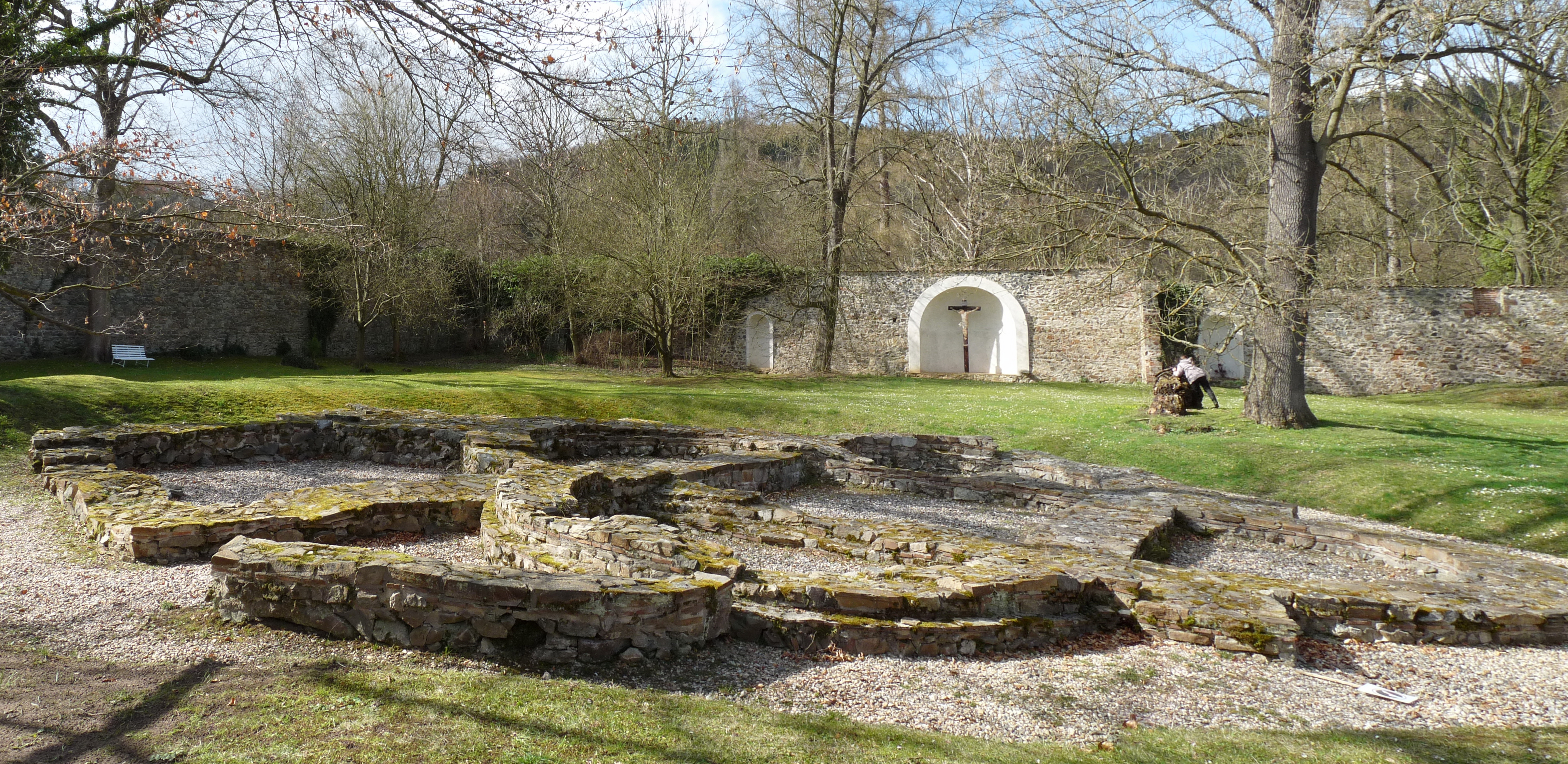 Foundations of the Holy Cross Church on the premises of Sázava Monastery in the town of Sázava, Benešov District, Central Bohemian Region, Czech Republic.